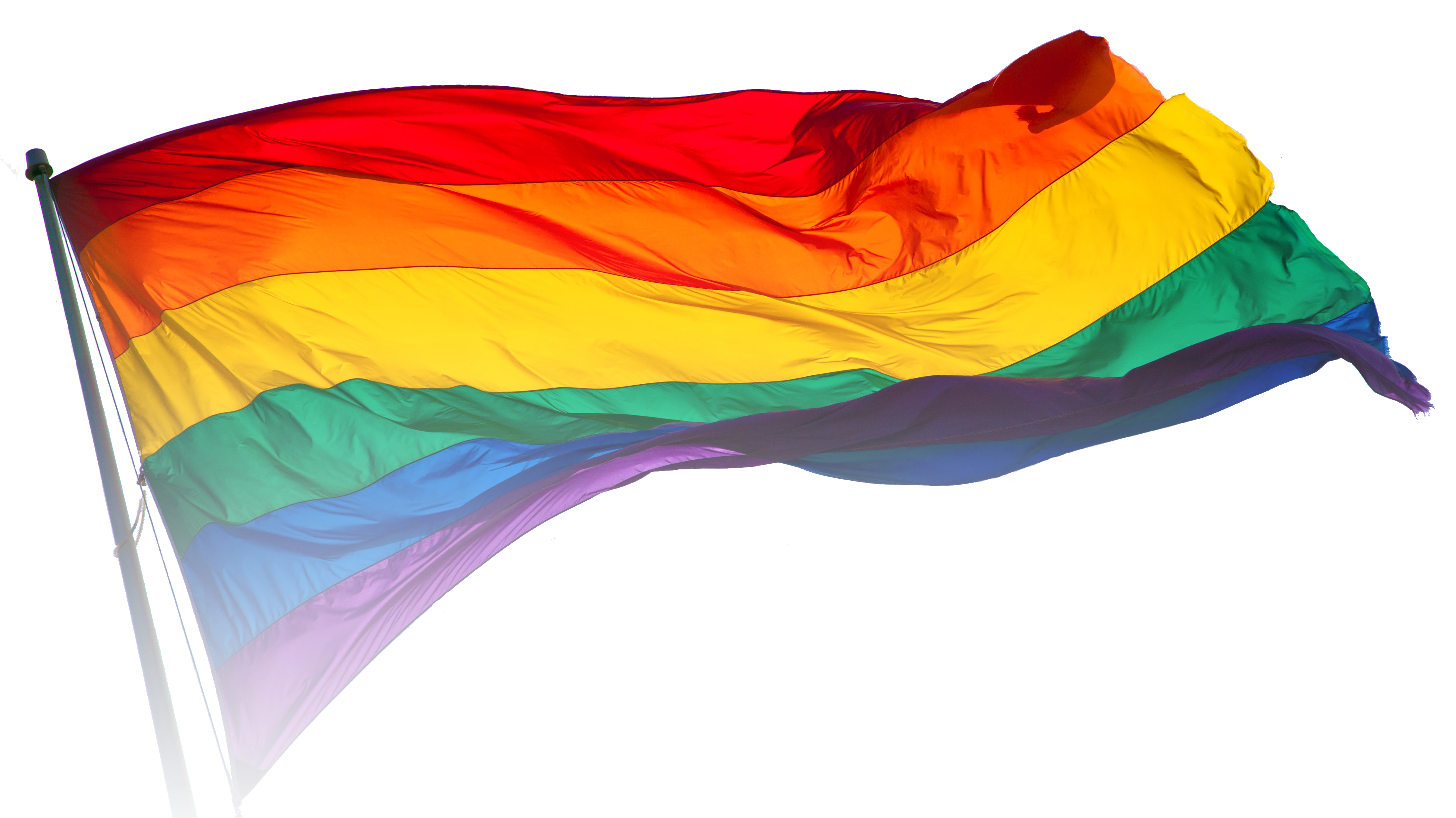 The rainbow flag waving in the wind at San Francisco's Castro District San Francisco, California